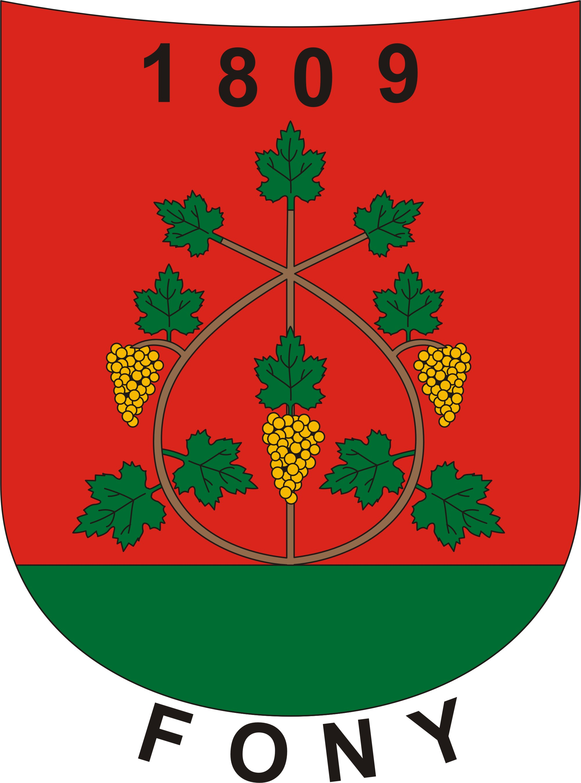 Coat of arms of Fony, Hungary